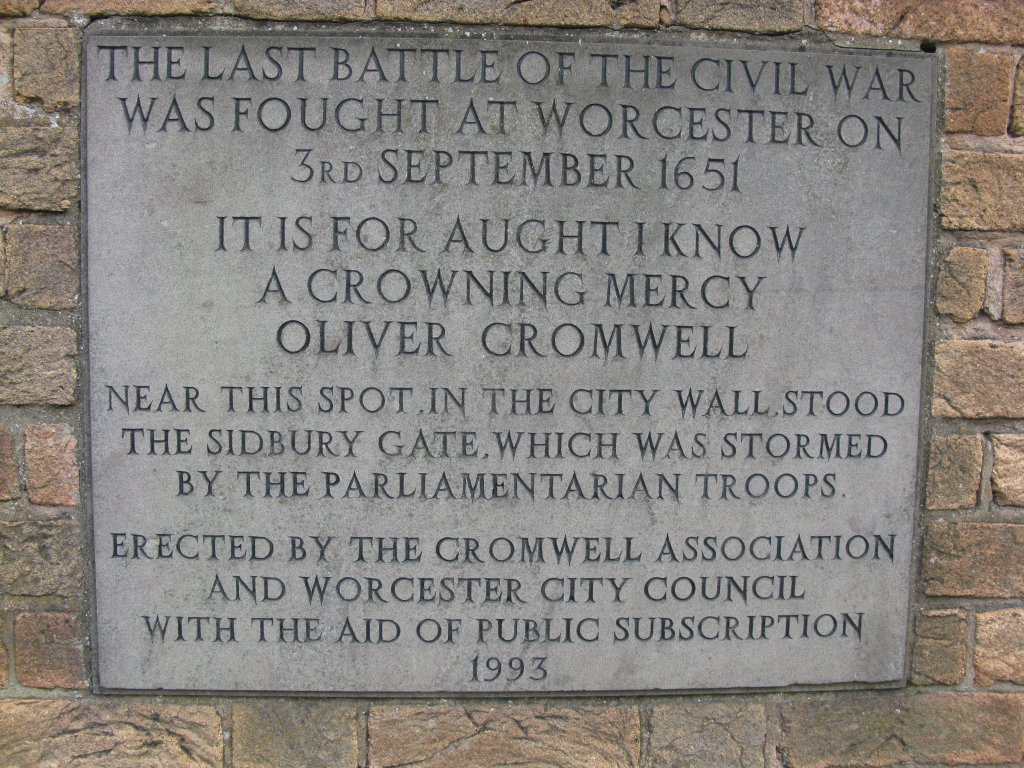 Plaque commemorating the Battle of Worcester on the site of the Sidbury Gate, Worcester, England.